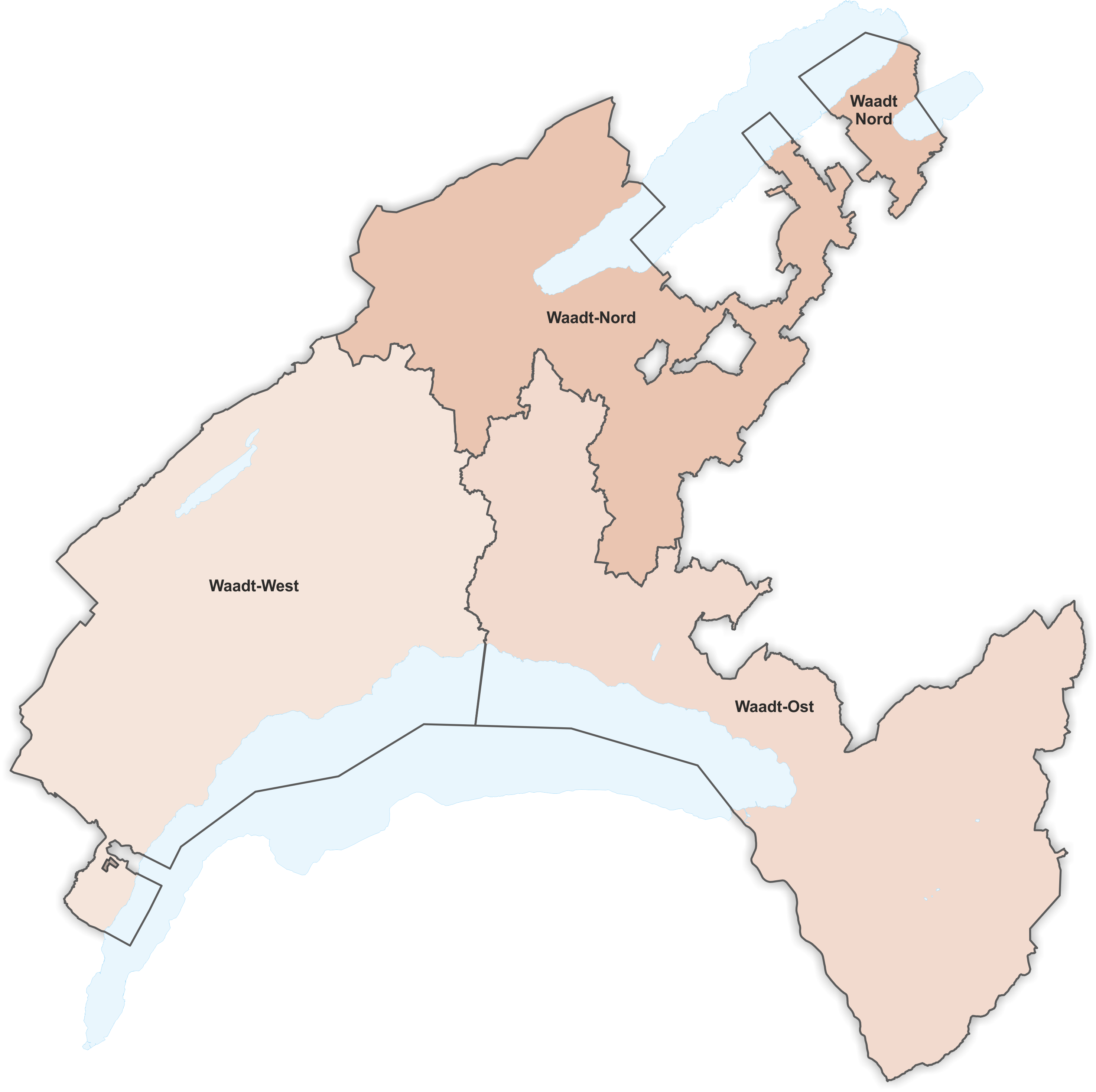 National council constituencies in the canton of Vaud from 1848 to 1860